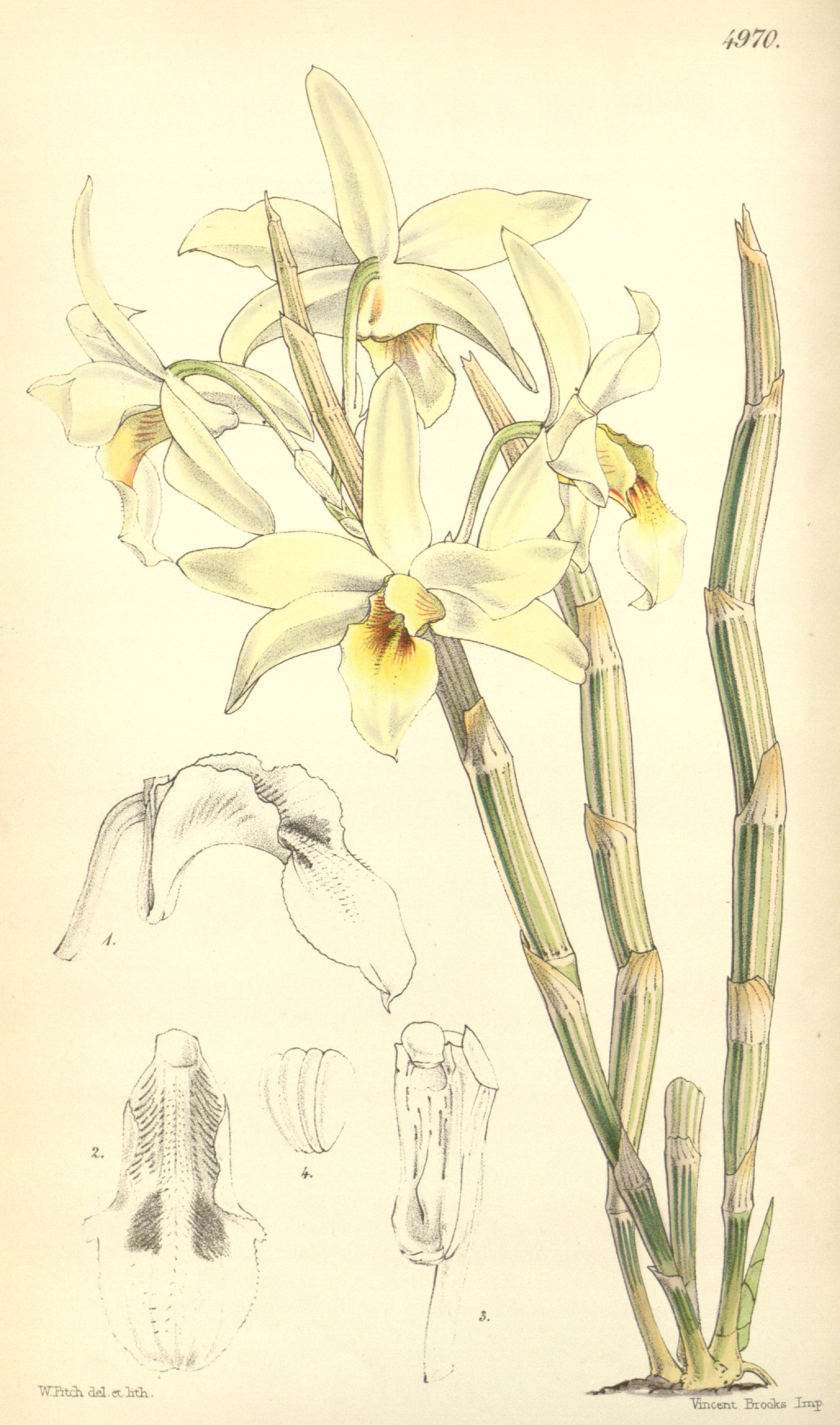 Illustration of Dendrobium heterocarpum as Dendrobium heterocarpum var. henshallii